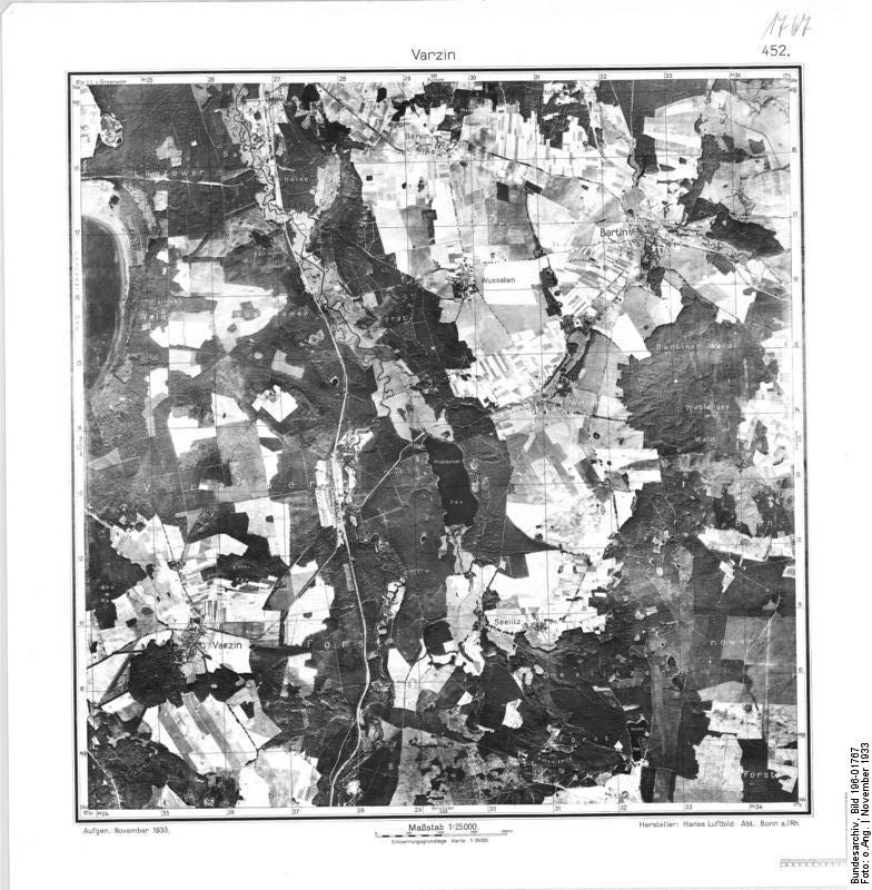 Warcino - aerial view.